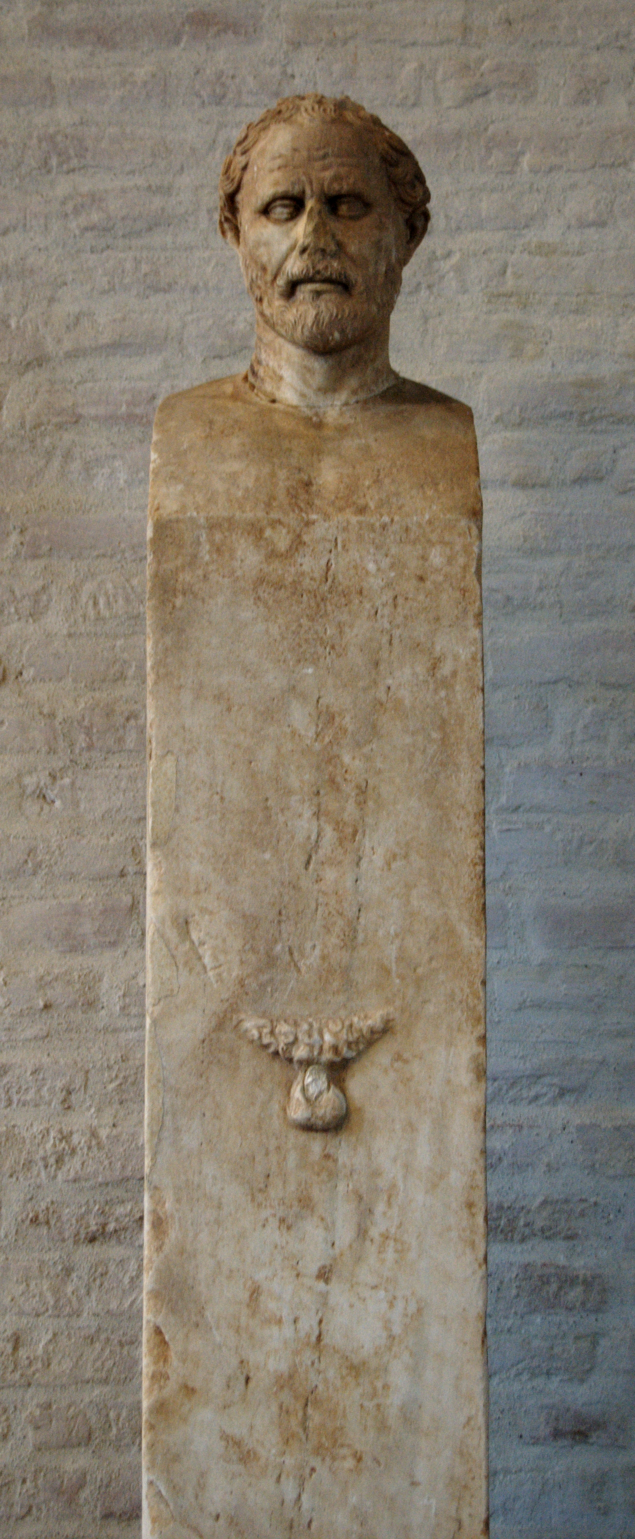 Herma of Demosthenes. Copy of an honour posthume statue of the statesman on the market place of Athens; work by Polyeuktos (ca. 280 BC).